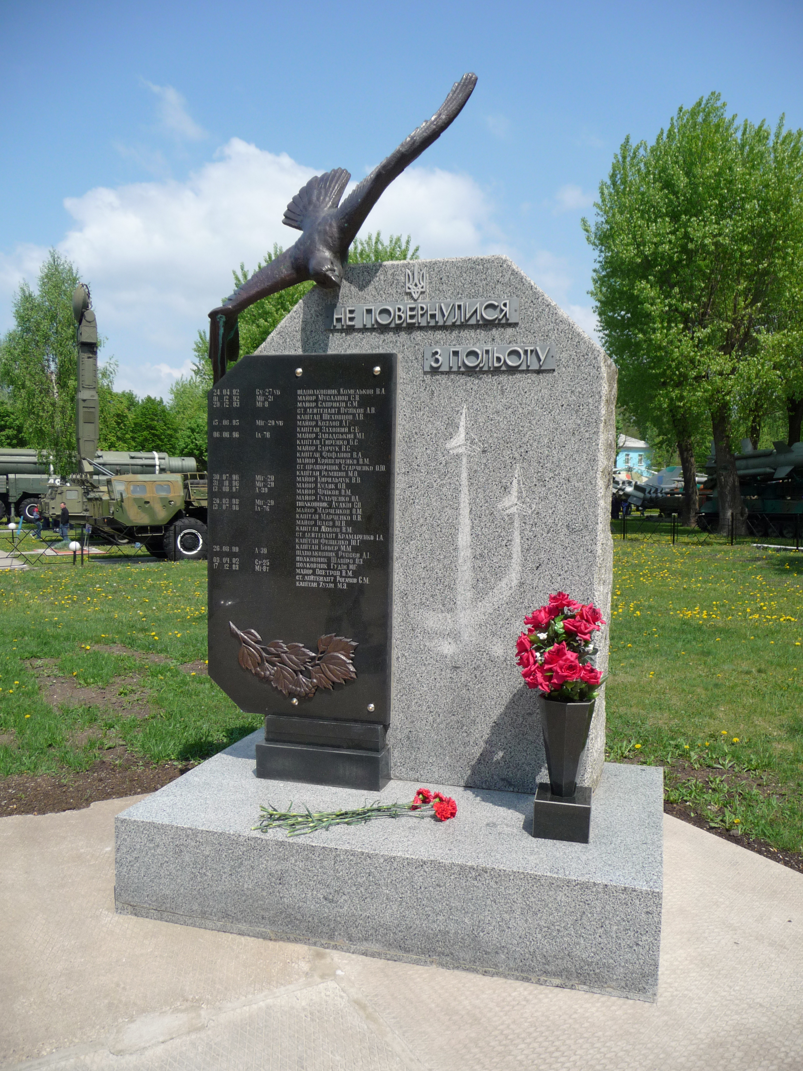 The Monument Not returned from flight was opened 2009-05-08. Ukrainian Air Force Museum in Vinnitsa